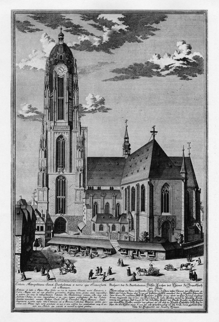 Ansicht des Frankfurter Doms St. Bartholomäu Ecclesia Metropolitana Sancti Bartholomaei et turris ejus Francofurti ad Moenum. Prospect der St. Bartholomaei Stiffts Kirchen und Thurms zu Franckfurth am Mayn.